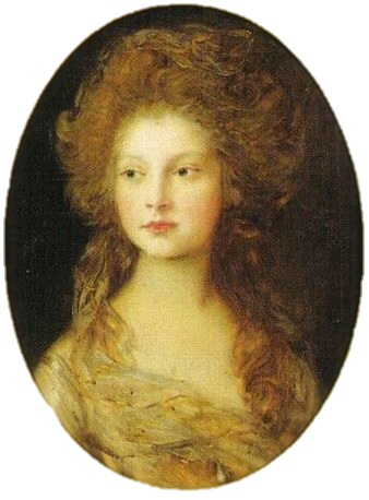 Portrait of Princess Elizabeth of the United Kingdom (1770-1840)